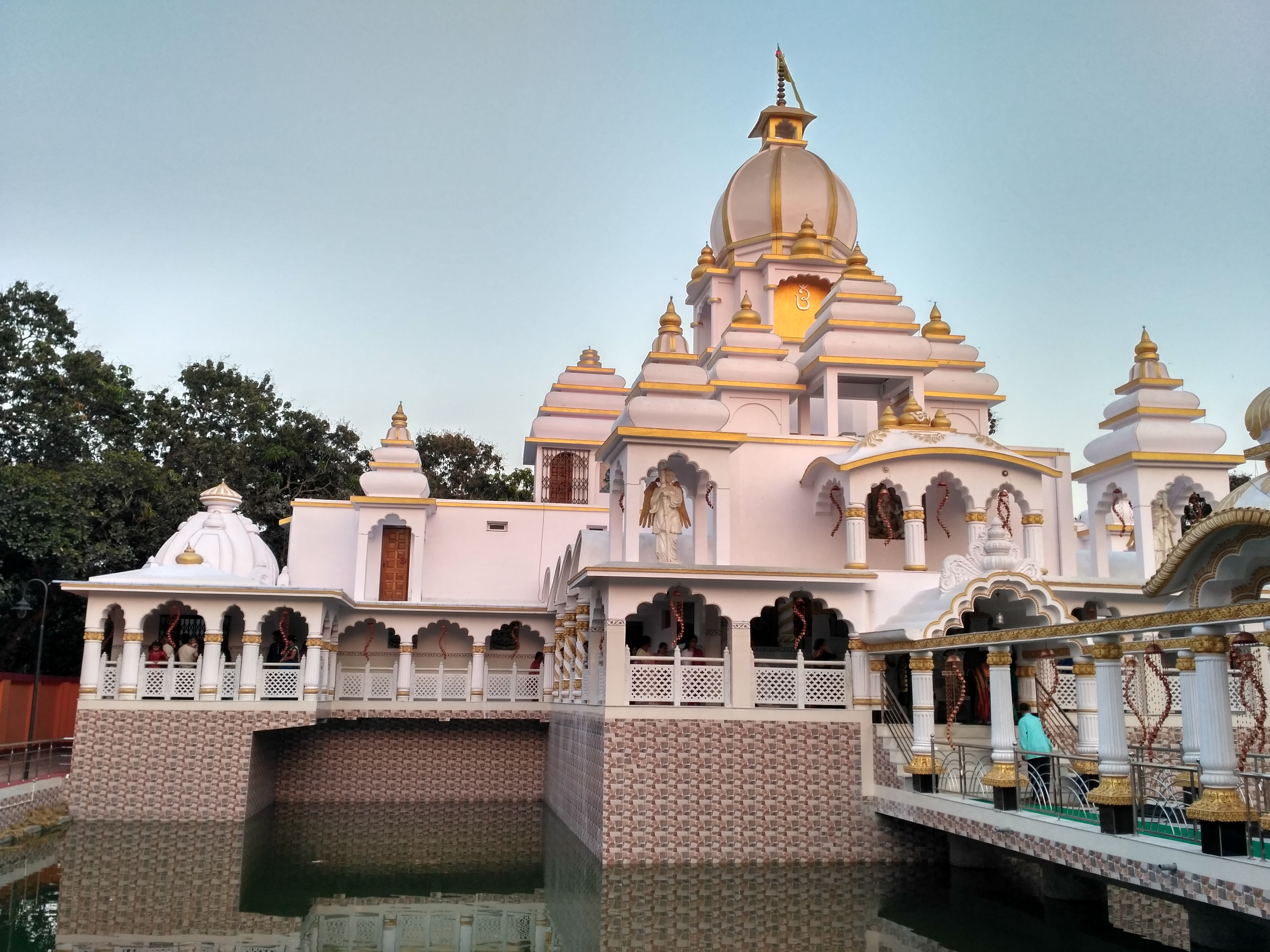 Rajhat, a village of Hooghly district located in West Bengal. Rajhat is famous for Lahiri Temple, situated parallel to GT Road, behind Arabinda Petrol Pump on Bandel- Pandua connector road. The entry to the temple is restricted by a normal gate around which a typical bengali fair can be seen. A lovely and well maintained garden welcomes you as soon as you cross the gate. Taking left leads you to the main temple. There are various small temples around the main block. The entire premise houses different idols from Shiva, Vishnu,Krishna, Durga, Kali, Buddha to Christ and Mother Mary.